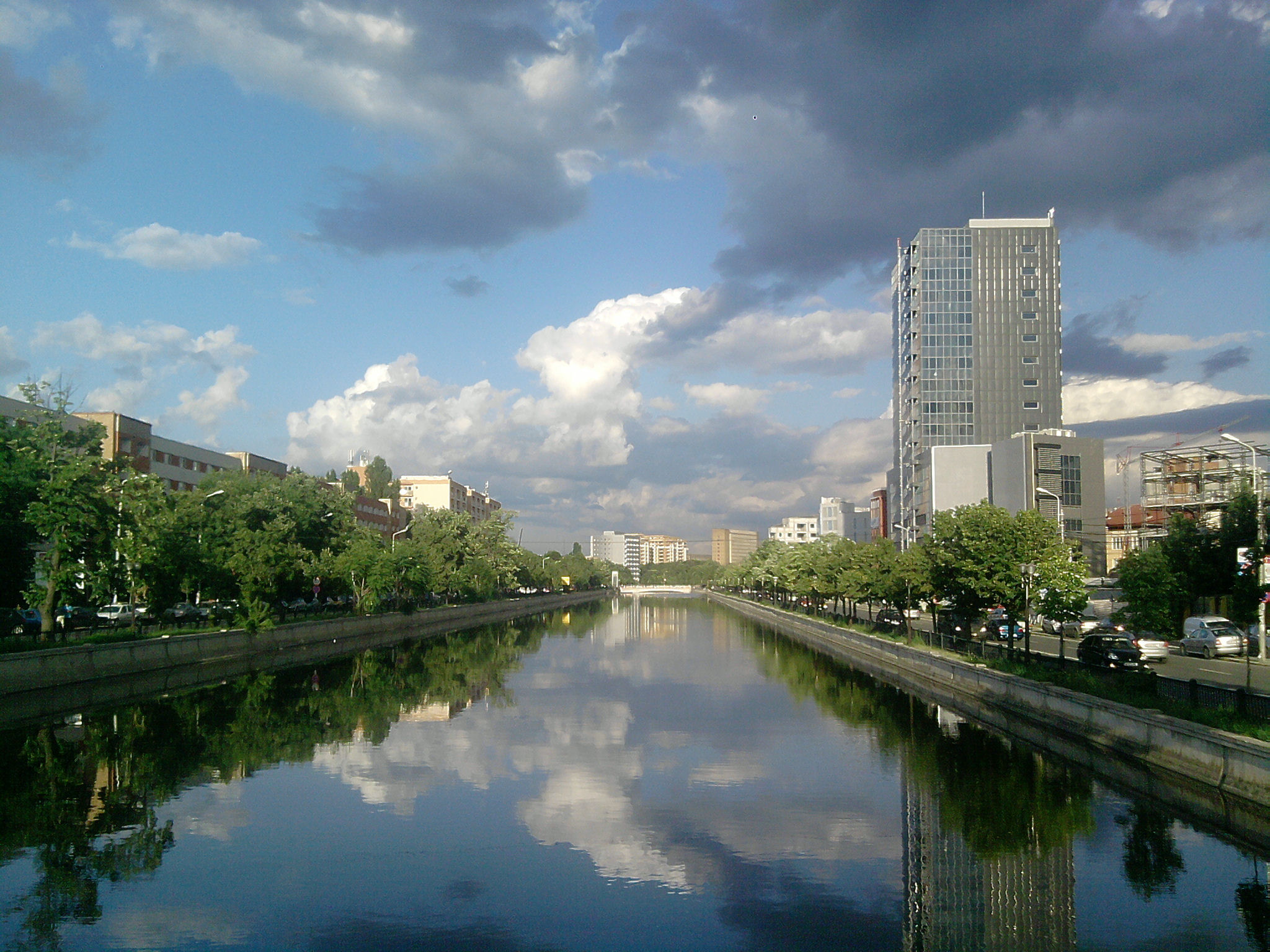 The Dambovita River.